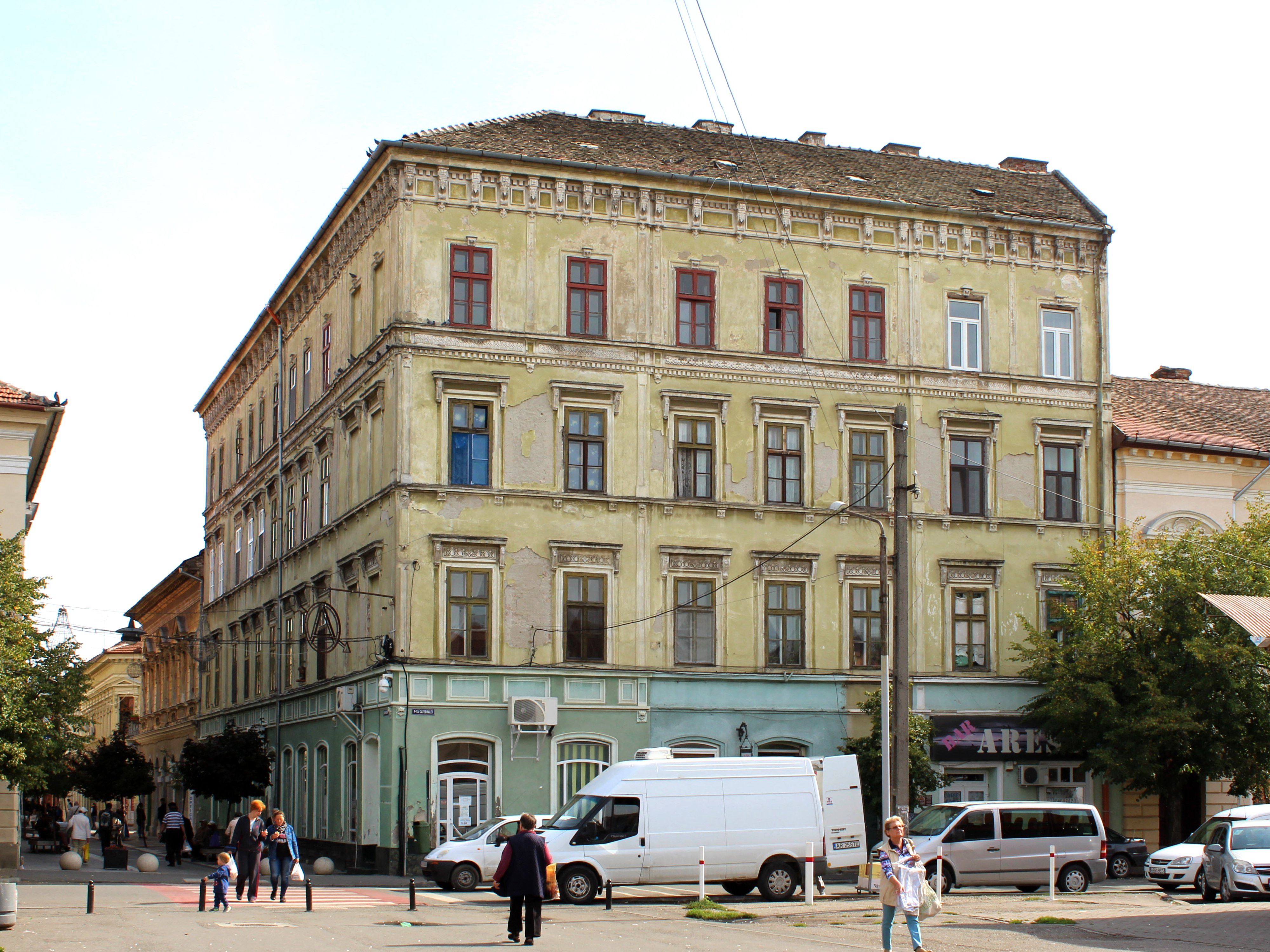 Former Headquarters of the General Workers' Association, Arad, Romania, built before 1900.